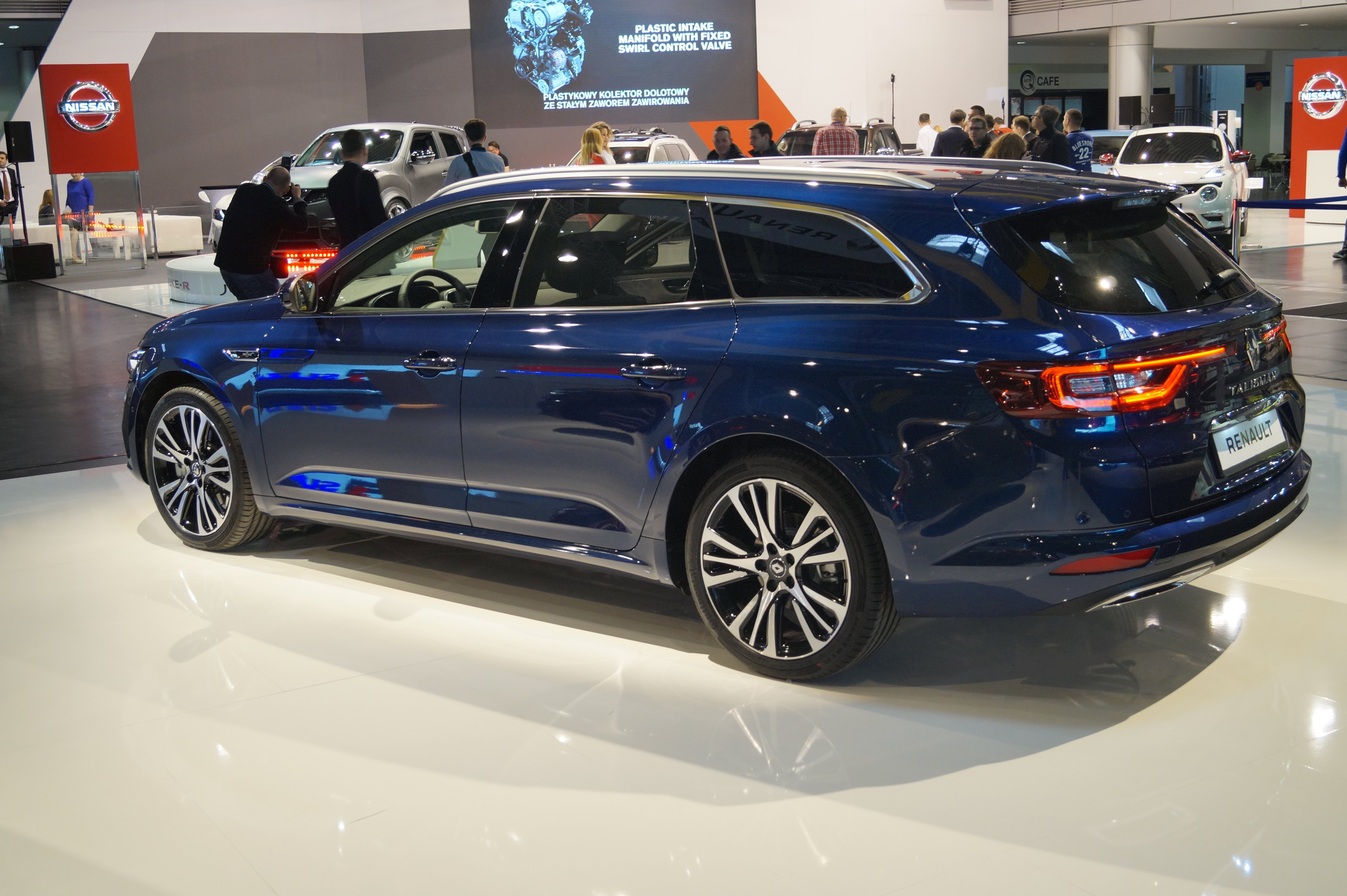 The making of this document was supported by Wikimedia Polska Association, within Wikigrant no. WG 2016-10. Tył Renault Talisman Grandtour na Motor Show Poznań 2016